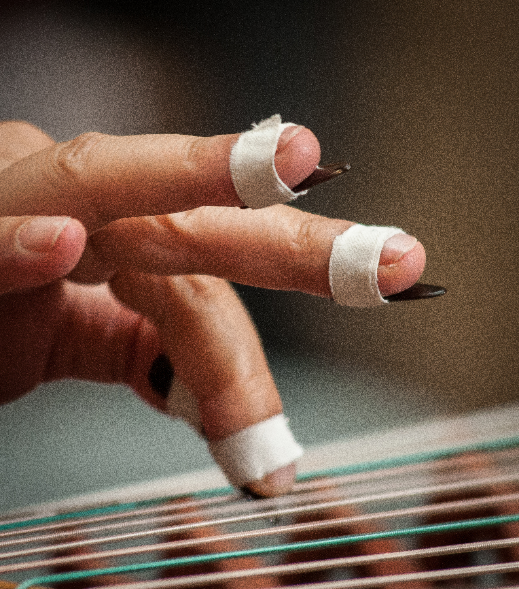 Washington Chinese Traditional Orchestra’s Huilan Chen gives a solo performance of “Gao Shan Liu shui” and “Yi zu Wu qu” on the Guzheng, an ancient type of musical instrument, during the U.S. Department of Agriculture (USDA) Asian Pacific American Heritage Month Observance, at the USDA headquarters, Whitten Building patio, in Washington, D.C., on Thursday, May 23, 2013. This year’s theme is “Building leadership; Embracing the Cultural Values and Inclusions.” USDA Photo by Lance Cheung.